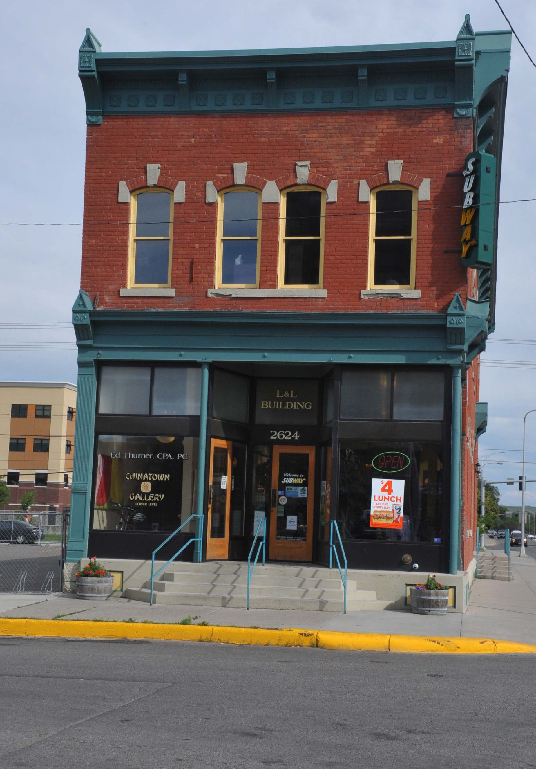 SIGNIFICANT FOR ITS ASSOCIATION WITH BILLINGS' HISTORIC CHINESE NEIGHBORHOOD, THE L&L BUILDING IS ONE OF THE OLDEST EXTANT BRICK COMMERCIAL BUILDINGS IN DOWNTOWN BILLINGS